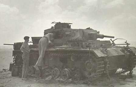 WESTERN DESERT, EGYPT. 1942-09-16. TANK OFFICERS OF THE ROYAL SCOTS GREYS INSPECTING DAMAGE DONE TO A GERMAN PZKFW III AUSF E MEDIUM TANK BY THEIR GENERAL GRANT M3 MEDIUM TANK.